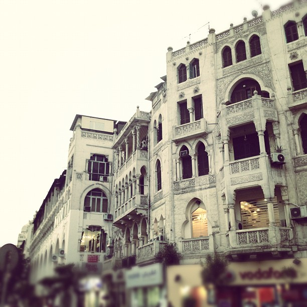 The historical Korba buildings, Heliopolis